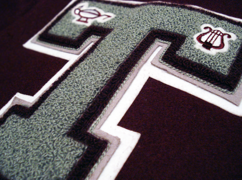 A generic varsity letter with awards in the arts and academia. This particular jacket is mine, photographed by me. The jacket is from Torrance High School, with a letter in Marching Band and Debate.